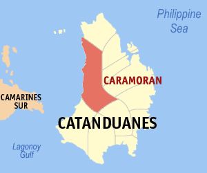 Map of Catanduanes showing the location of Caramoran